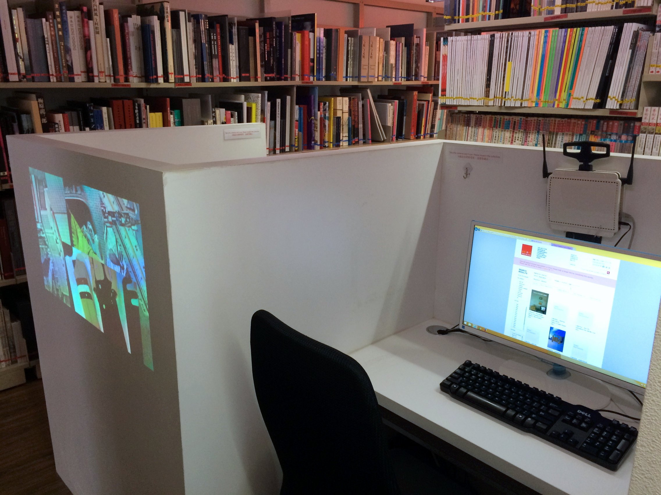 Asia Art Archive